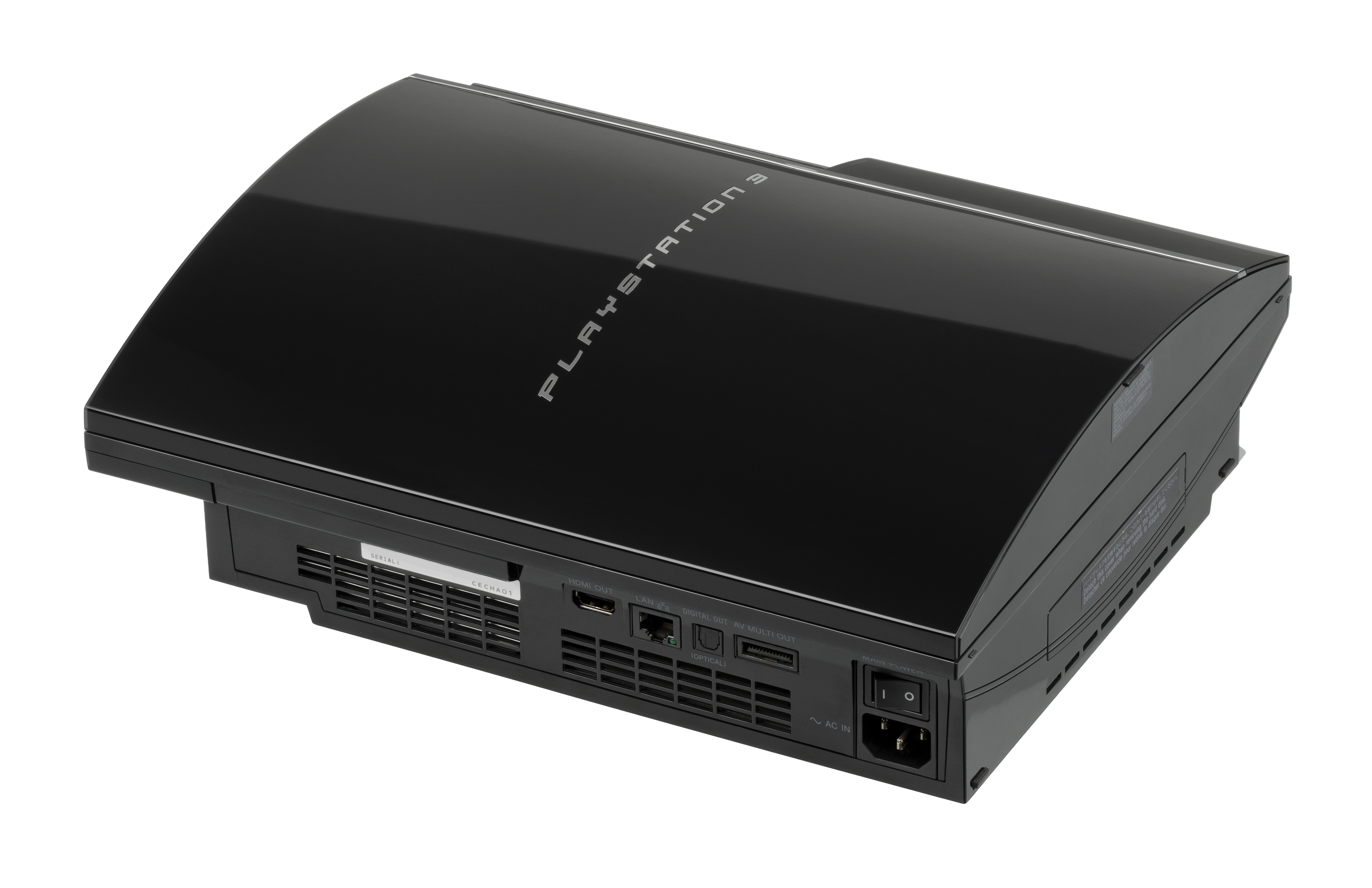 The back of the Sony PlayStation 3 (PS3) video game console, showing the inputs and outputs: HDMI OUT, LAN, DIGITAL AUDIO OUT, AV MULTI OUT, AC IN . This is a seventh generation console first released in 2006 as the successor to the PlayStation 2. This model is the CECHA01, one of the first two models released. It features a 60GB hard drive, hardware-based backwards compatibility with PS2 games and flash memory card readers.